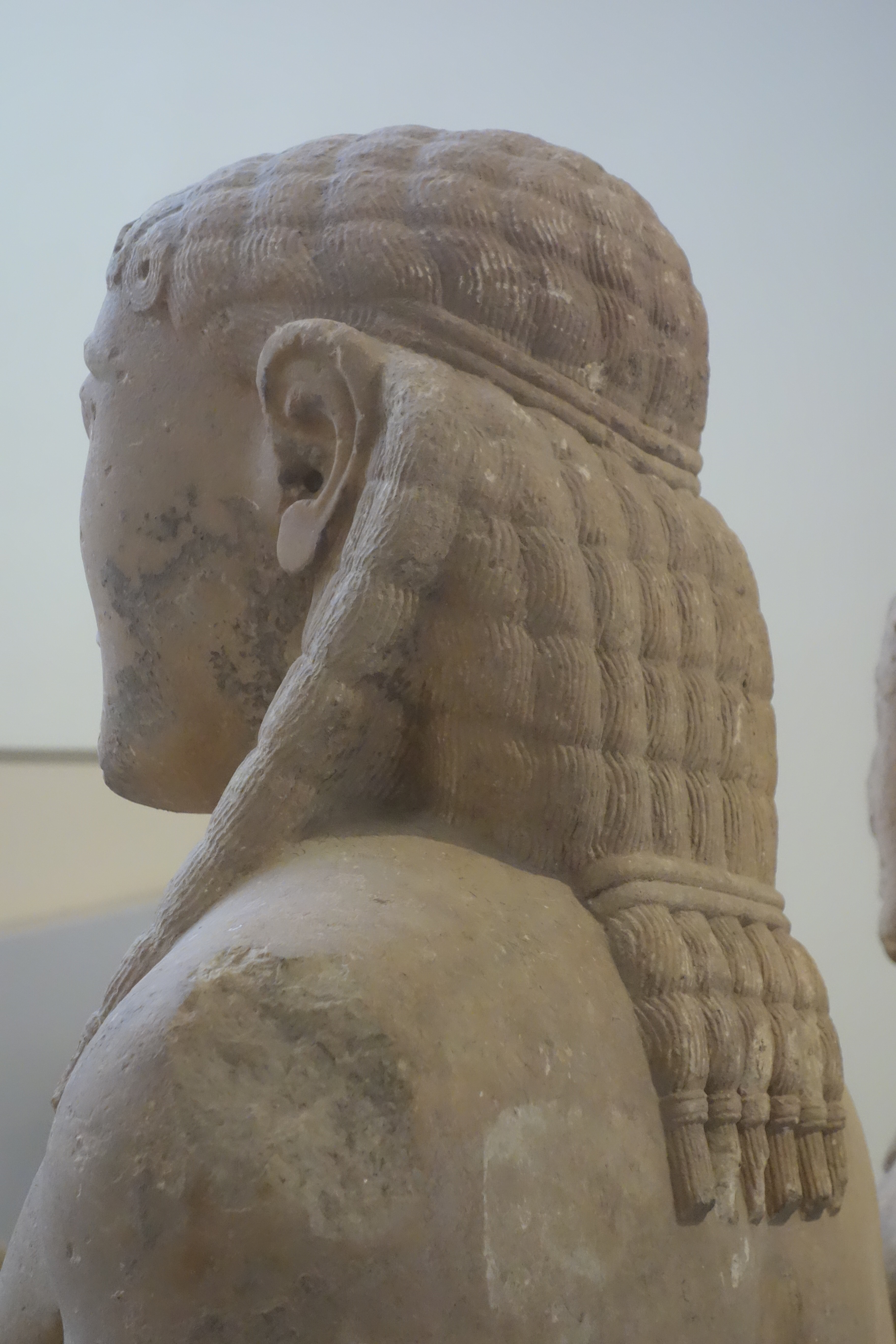 Statues of Kleobis and Biton (detail)